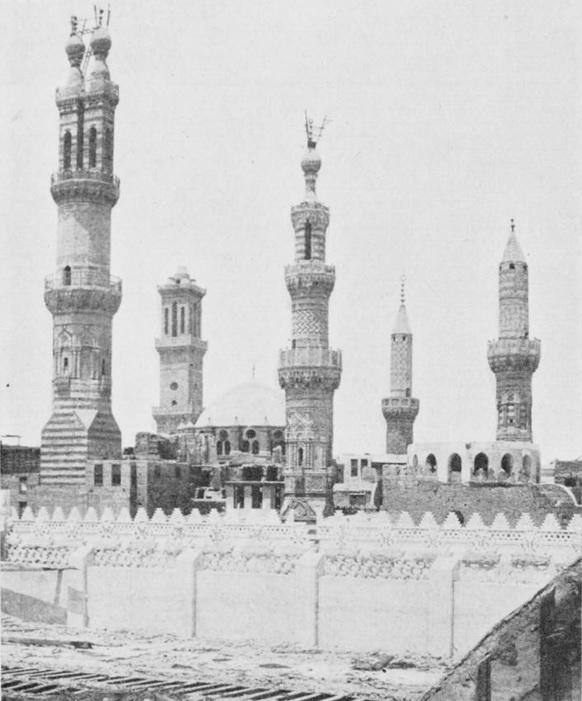 View of the minarets rising above the Mosque El Azhar.